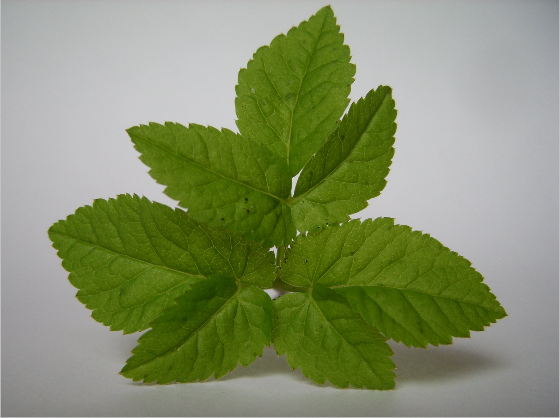 leaf of Aegopodium podagraria